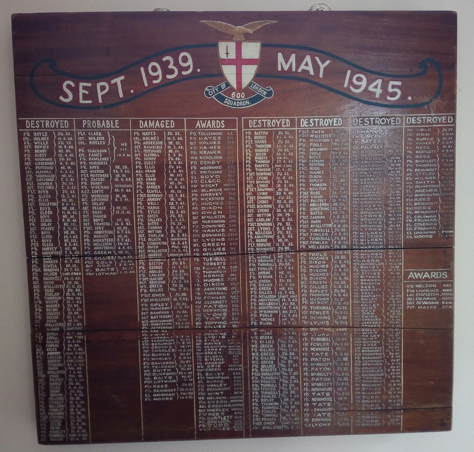 A contemporary wooden 'scoreboard' listing all the aircraft damaged or destroyed by number 600 Squadron RAF during World War 2. Displayed at the Air Defence Radar Museum, Neatishead Norfolk England.